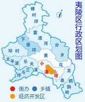 Yiling administrative map